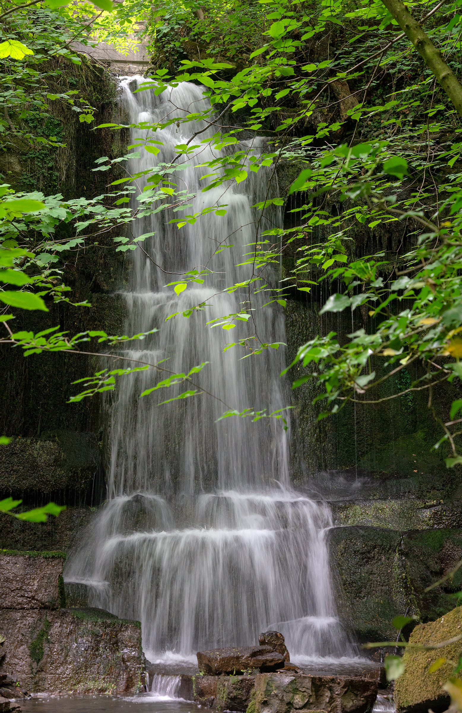 Harmby Waterfalls near Leyburn